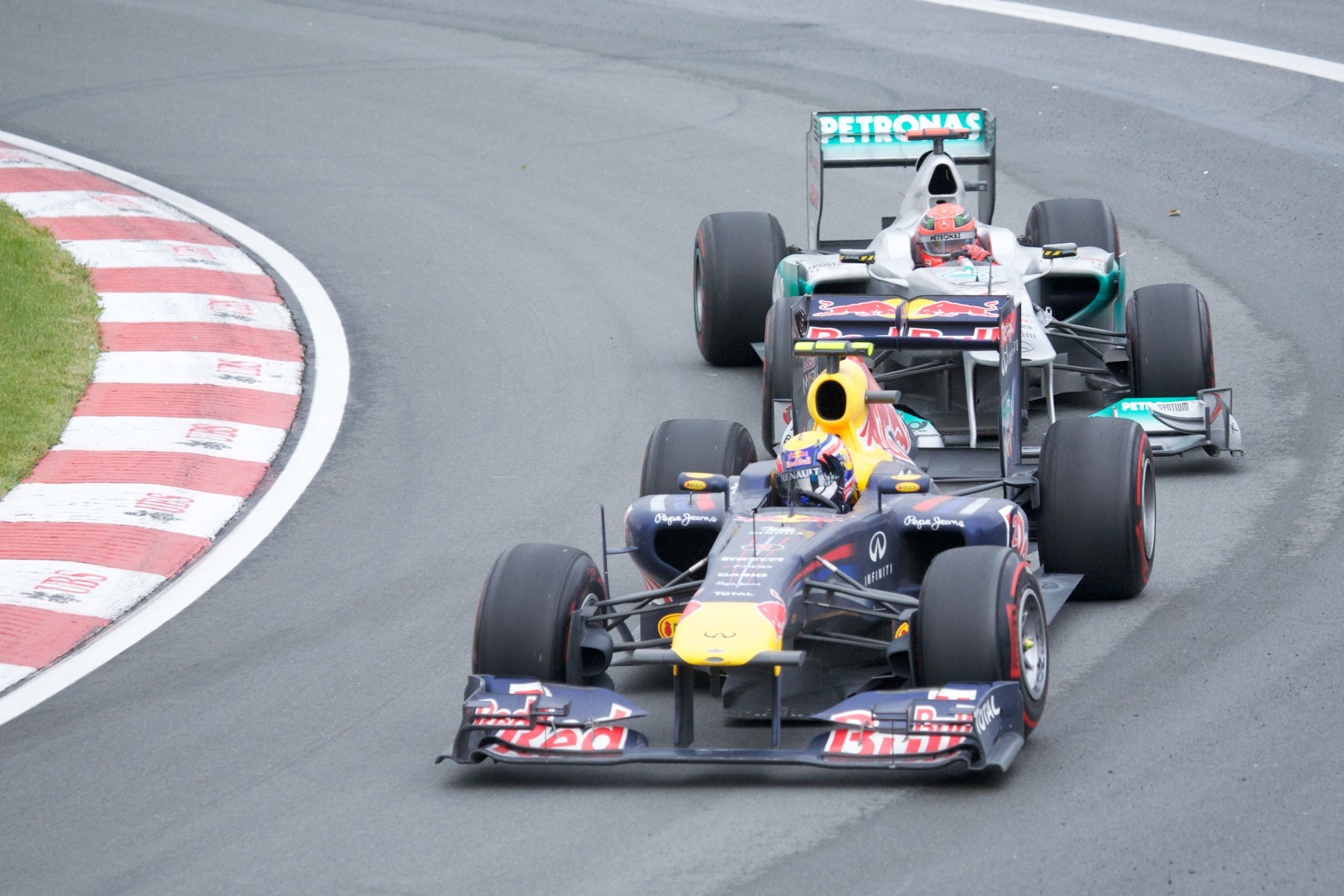 2011 Canadian Grand Prix